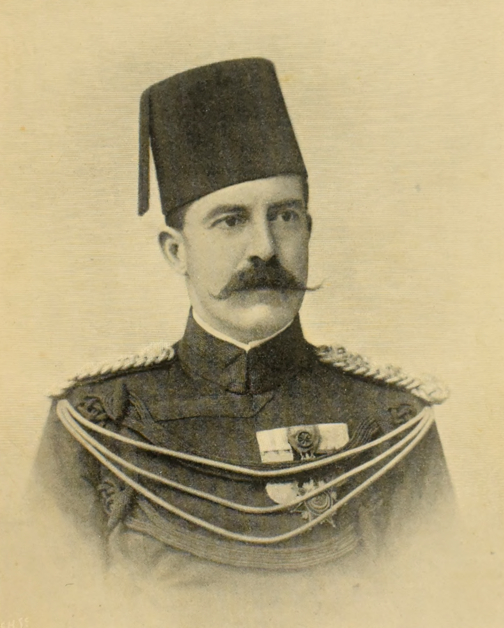 Major-General Archibald Hunter, D.S.O.